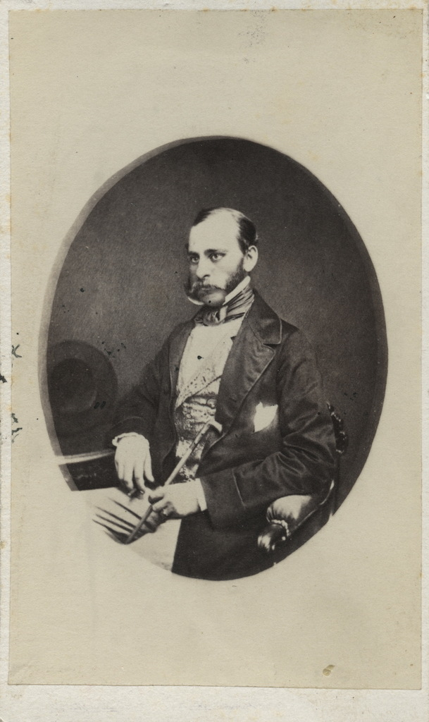 Richard Fürst (1827-1855), clerk and artist